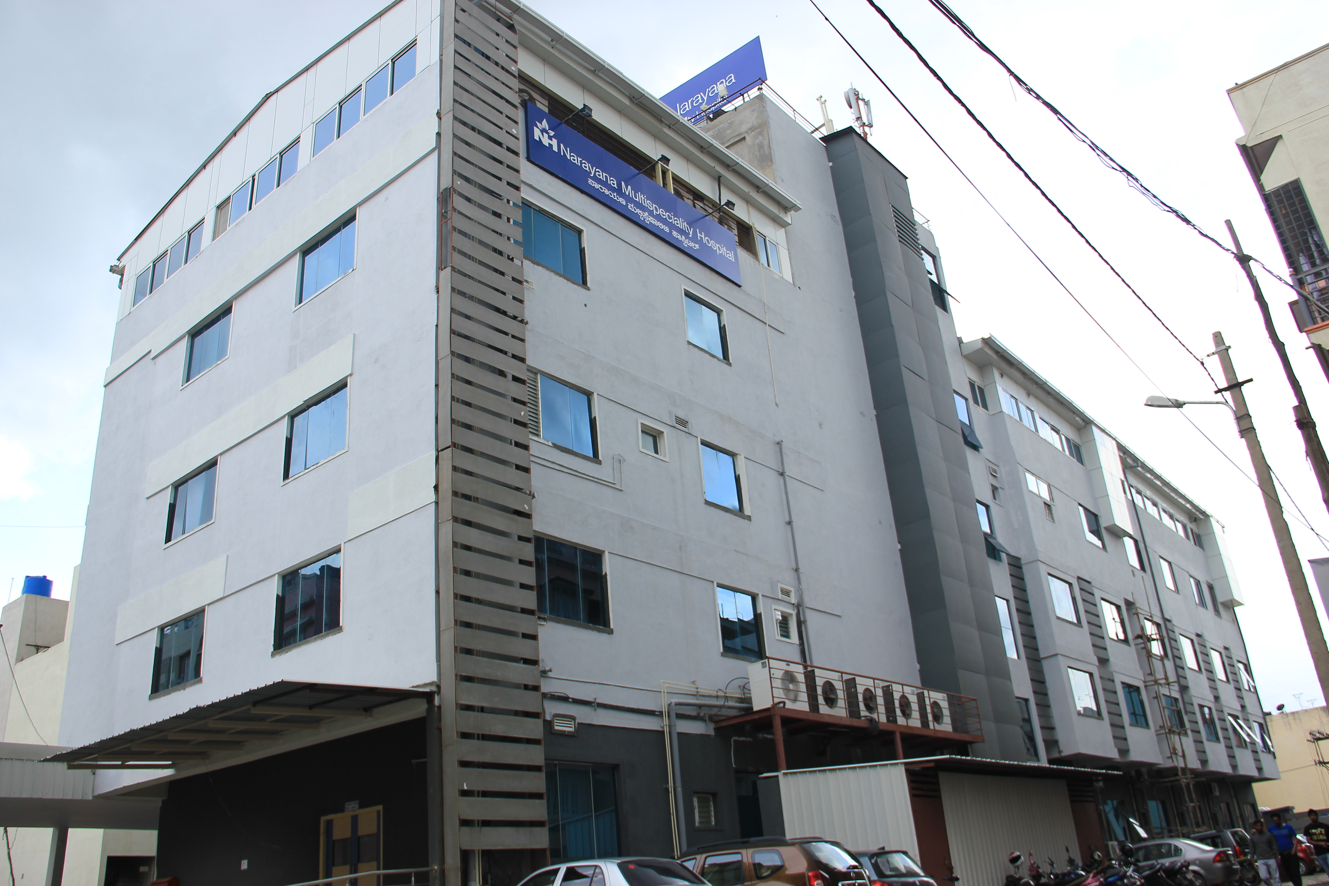 Outer View, Narayana Multispeciality Hospital, HSR Layout. A unit of Narayana Health